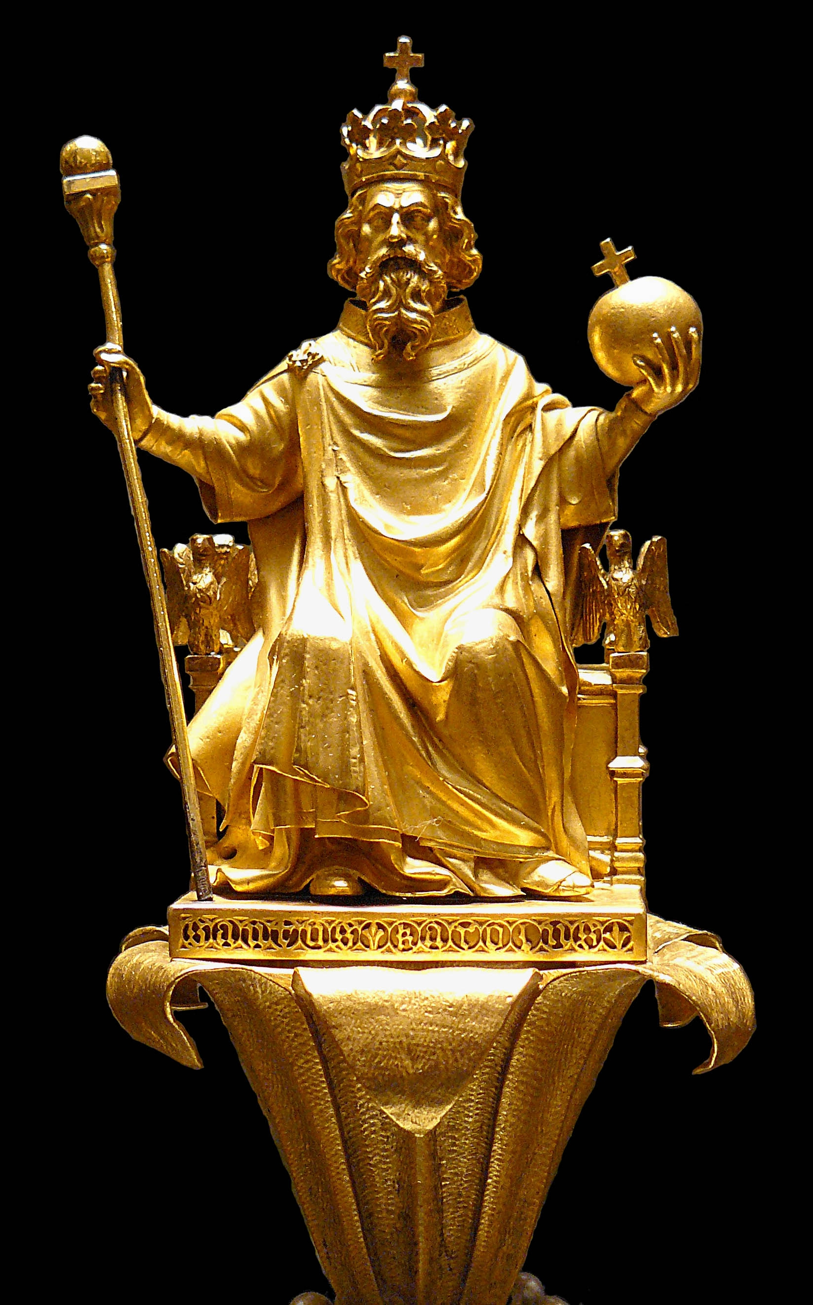 Statuette representing Charlemagne, resting on a lily.